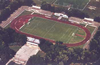 Subotica City Stadium, Subotica, Serbia.